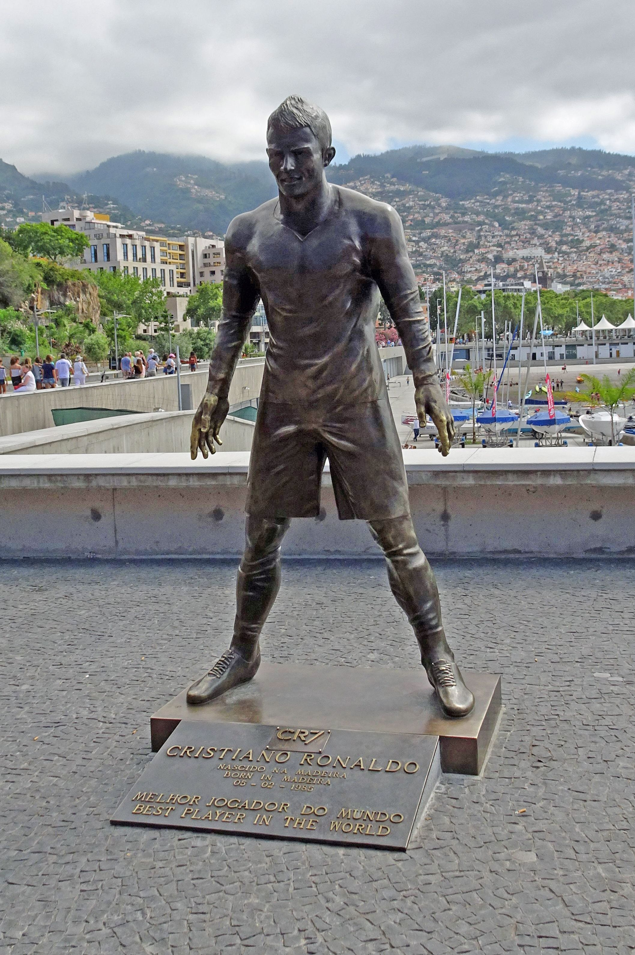 Statue of Cristiano Ronaldo in front of the CR/ museum at Funchal, Madeira